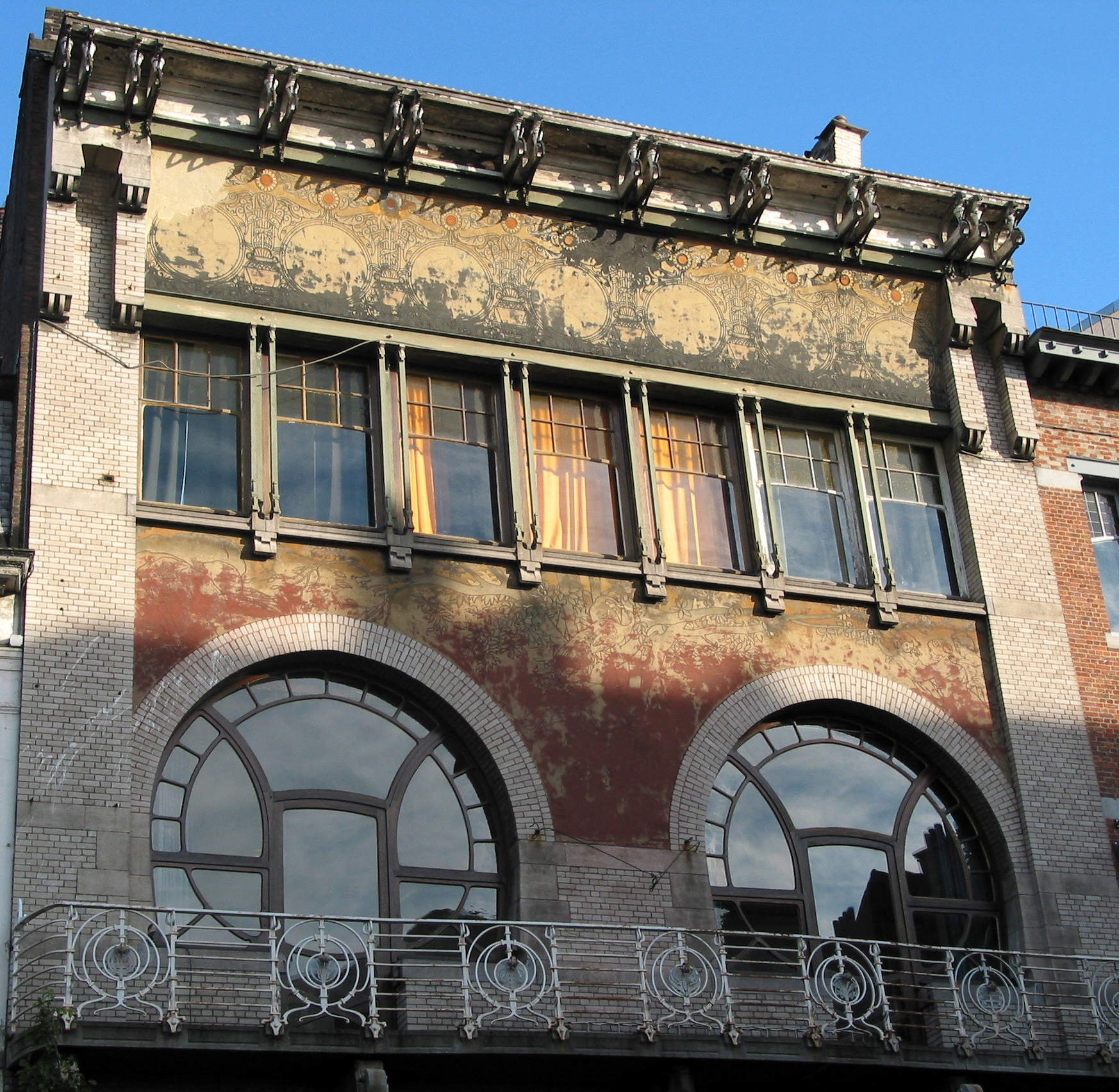 Ixelles (Belgium), Rue Defaqz, the Ciamberlani house façade (1897 - Architect: Paul Hankar).